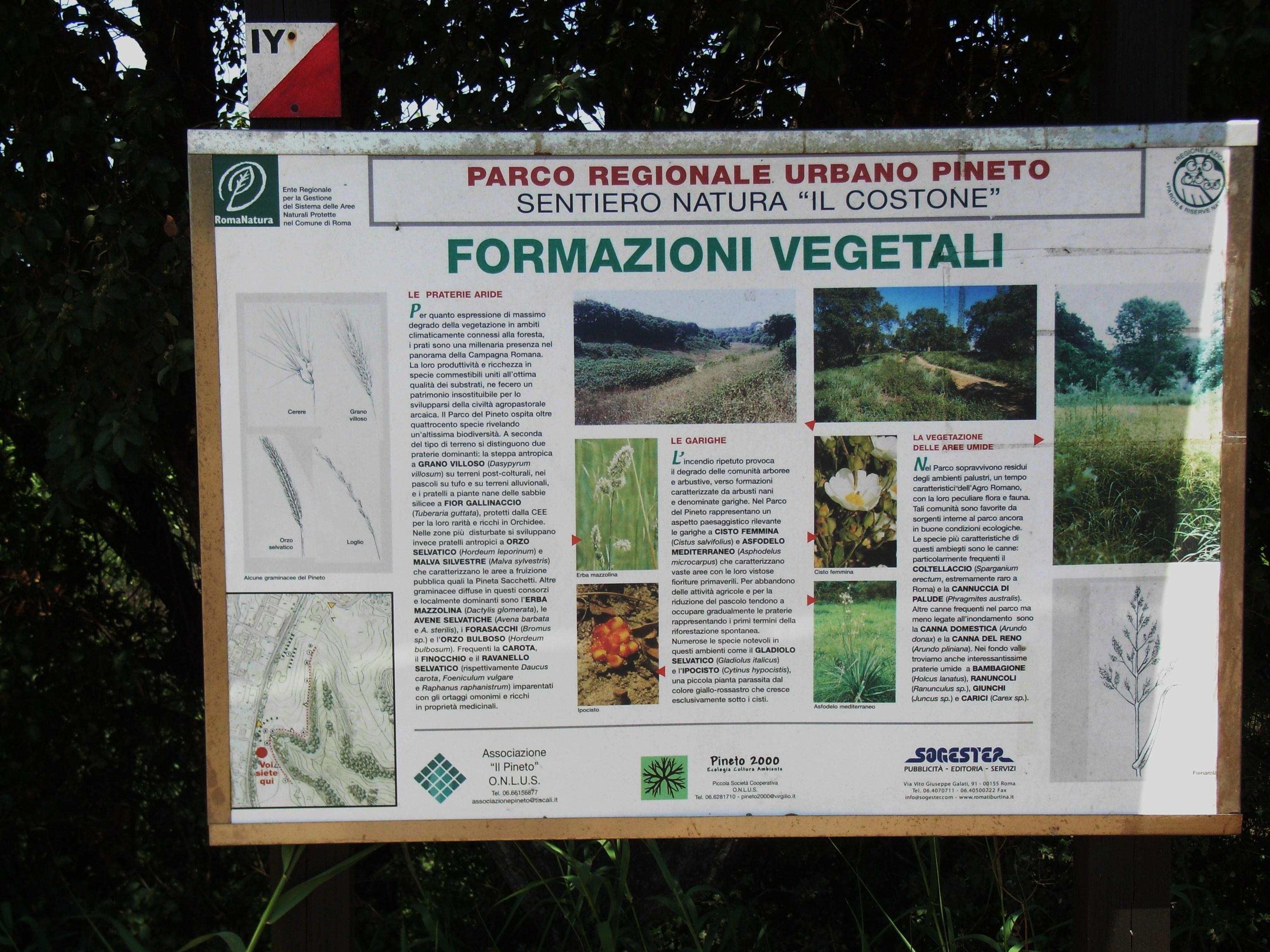 Pineto Regional Park.Information Board-Botany.